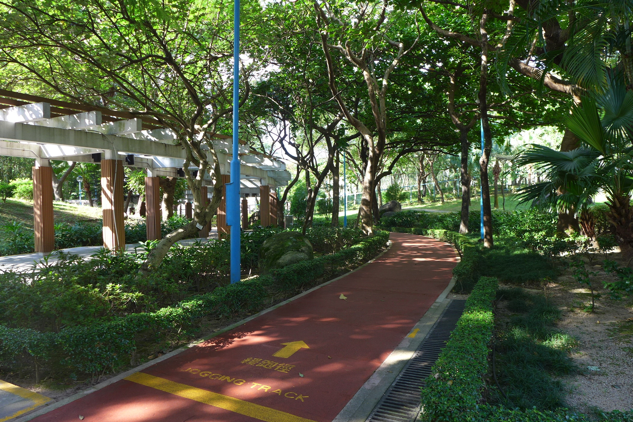 Junction Road Park Jogging Track